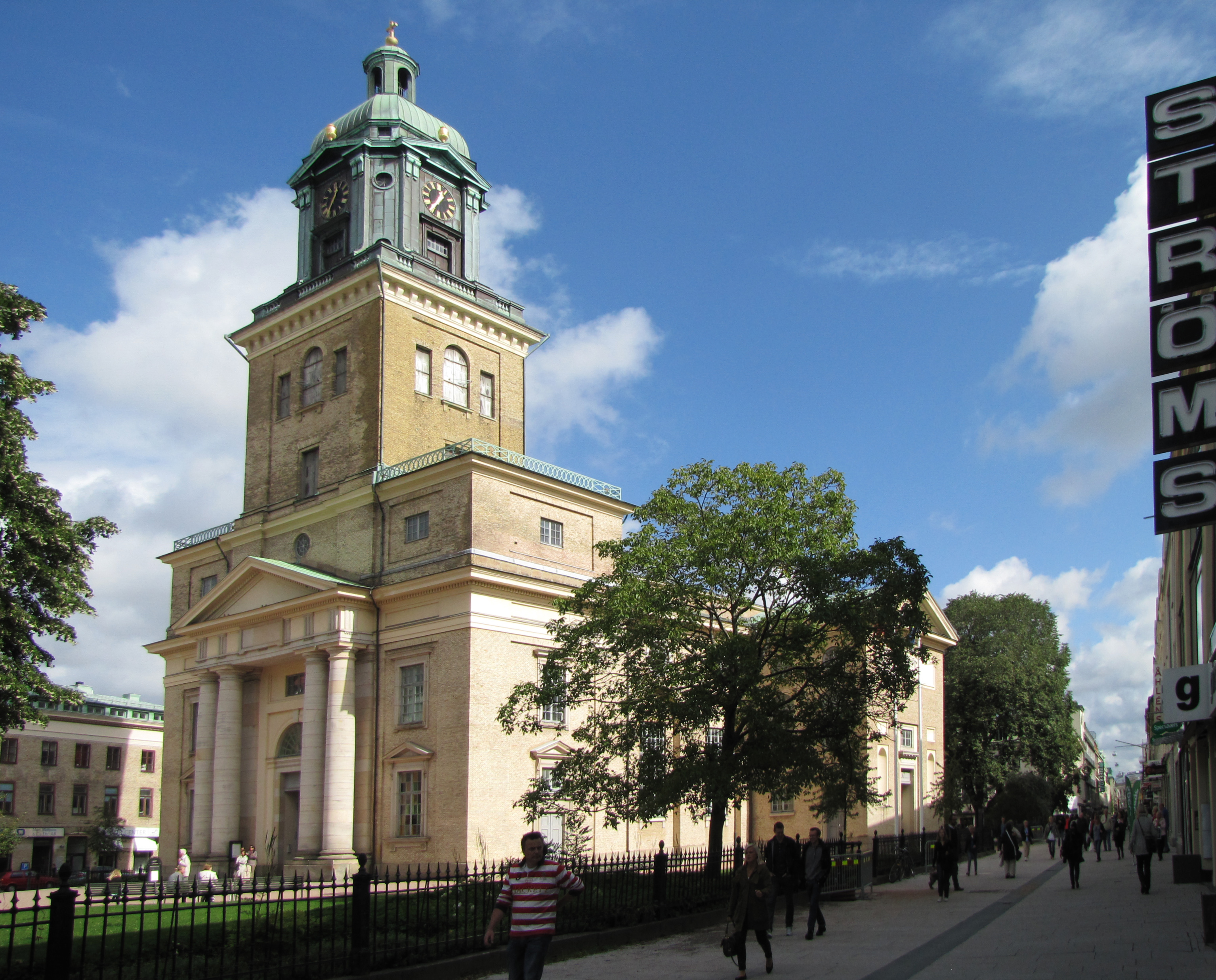 "Domkyrkan", the Göteborg cathedral, seen from the mall Kungsgatan.